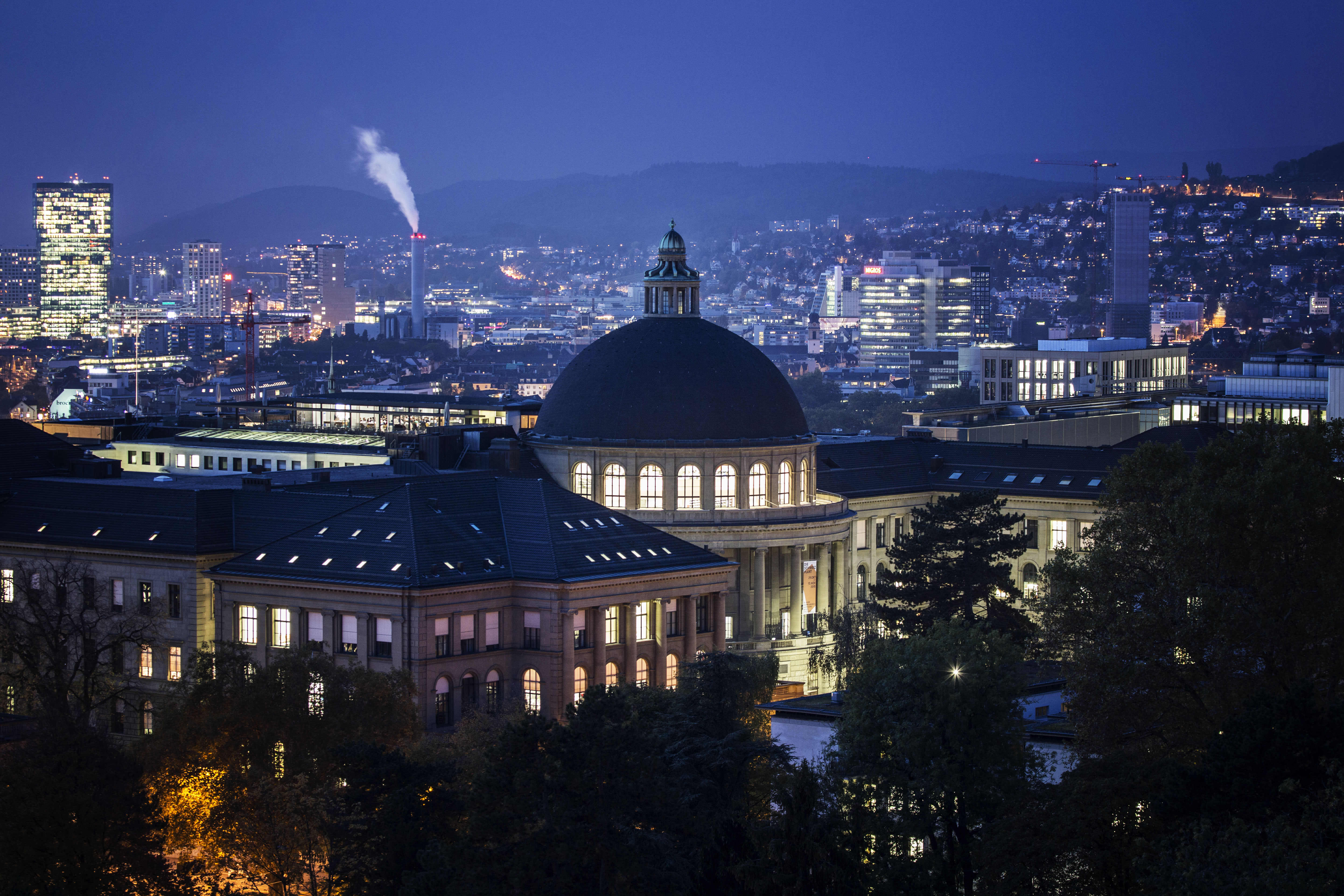 ETH Zurich at twilight